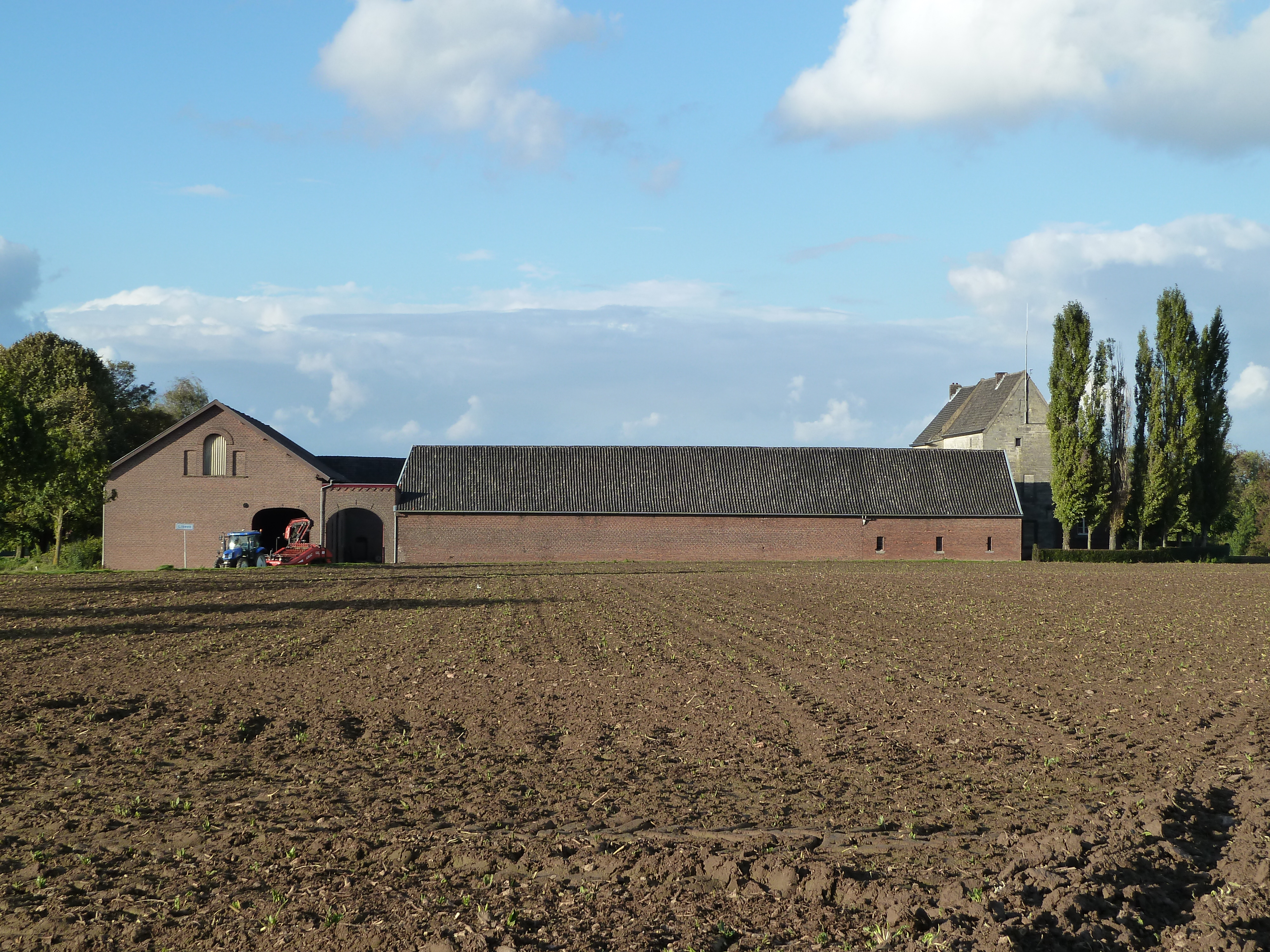 Libeek 27, Sint Geertruid, Limburg, the Netherlands